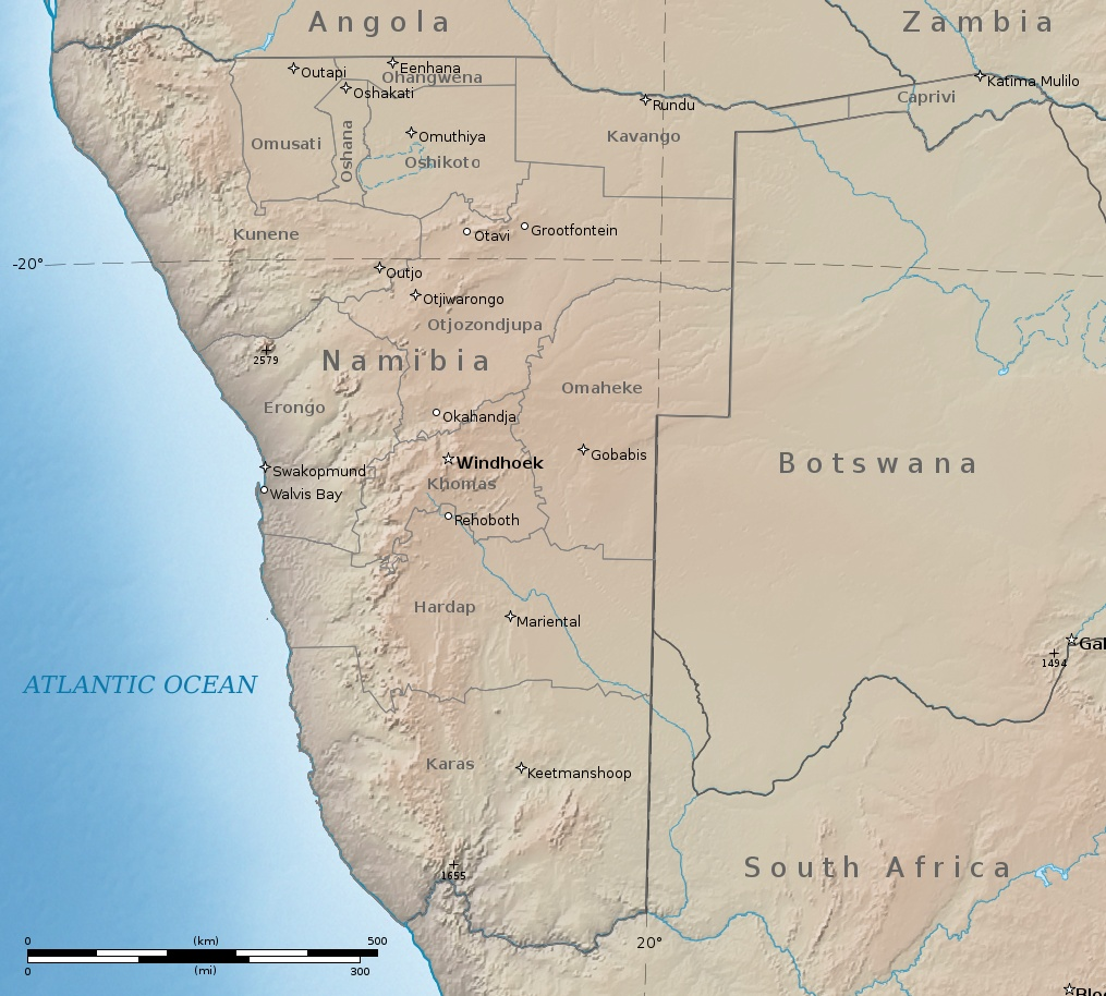 Shaded relief map of Namibia with cross-blended hypsometric tints. Digital data and background raster from